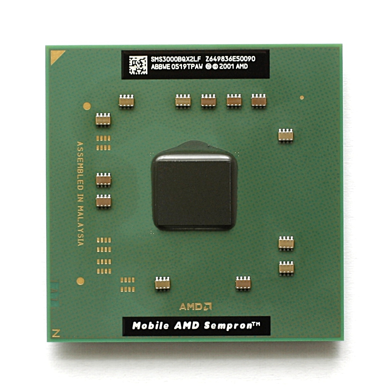 CPU AMD Mobile Sempron Roma Core